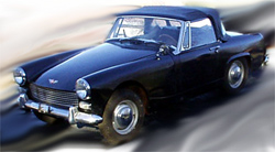 Austin-Healey Sprite Mk III